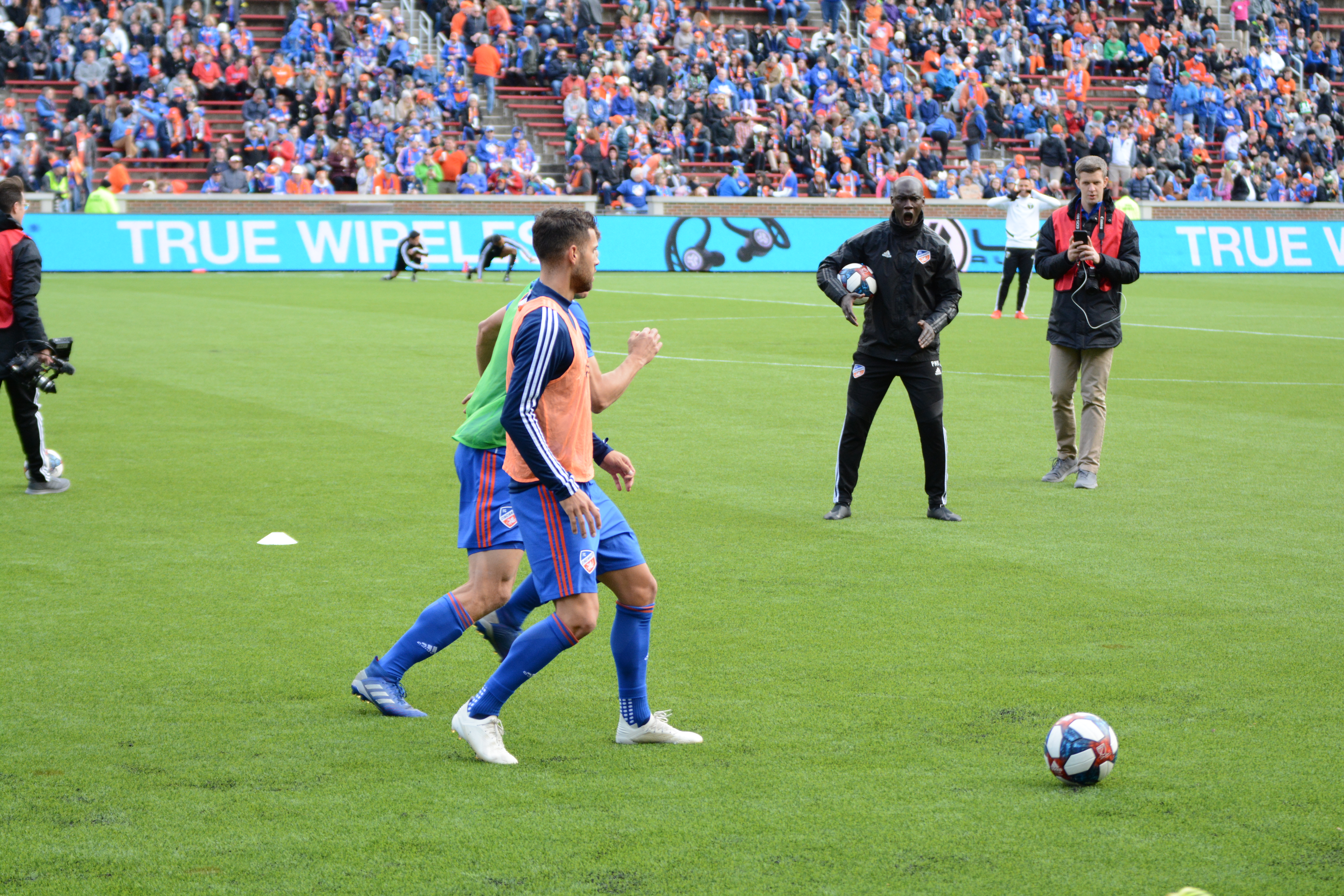 Taken during FC Cincinnati's Major League Soccer regular season home opener match against Portland Timbers at Nippert Stadium in Cincinnati, USA on March 17, 2019.